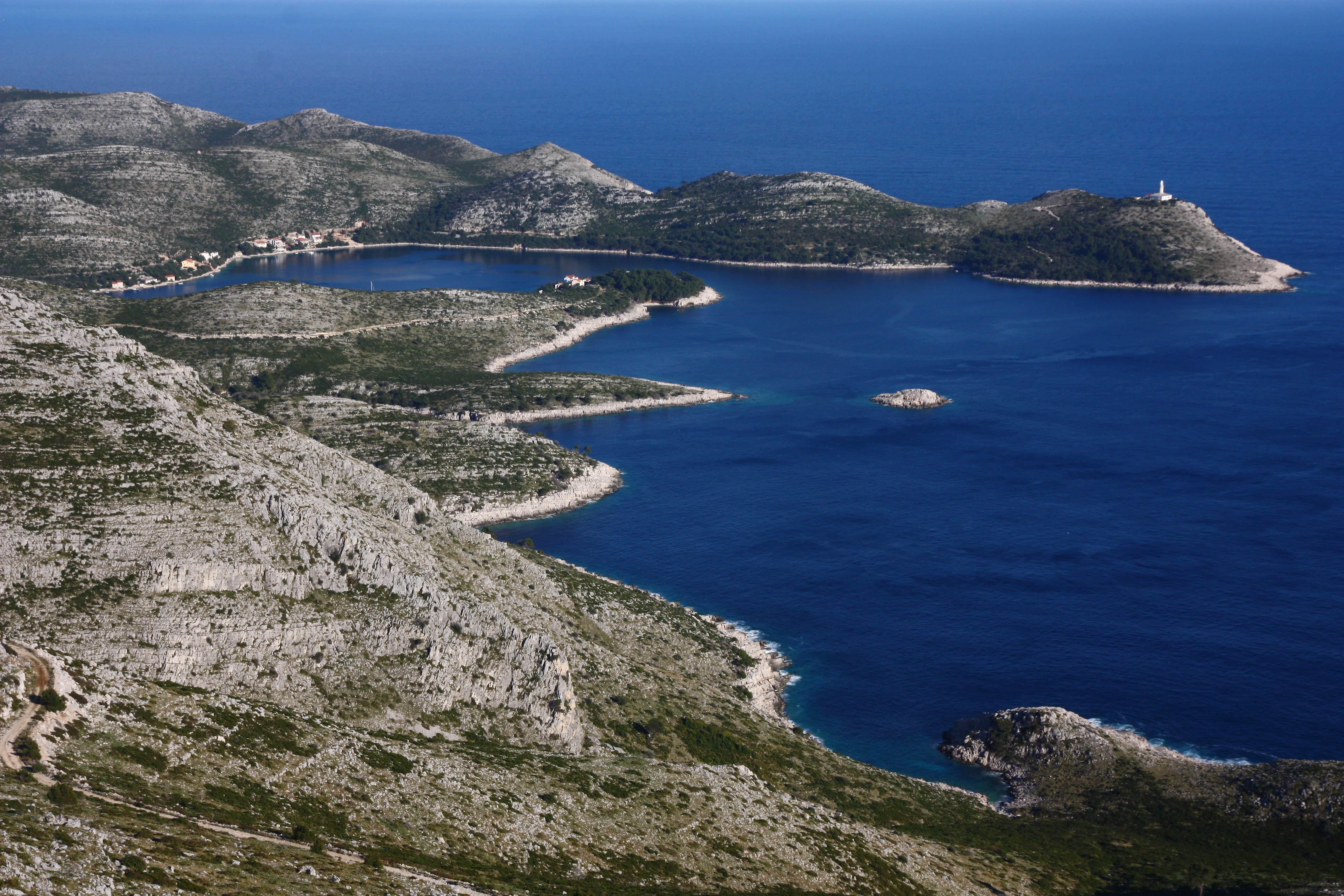 Nature park Lastovo islands, Skrivena luka bay This is a a photo of a natural area in Croatia with ID: PP03